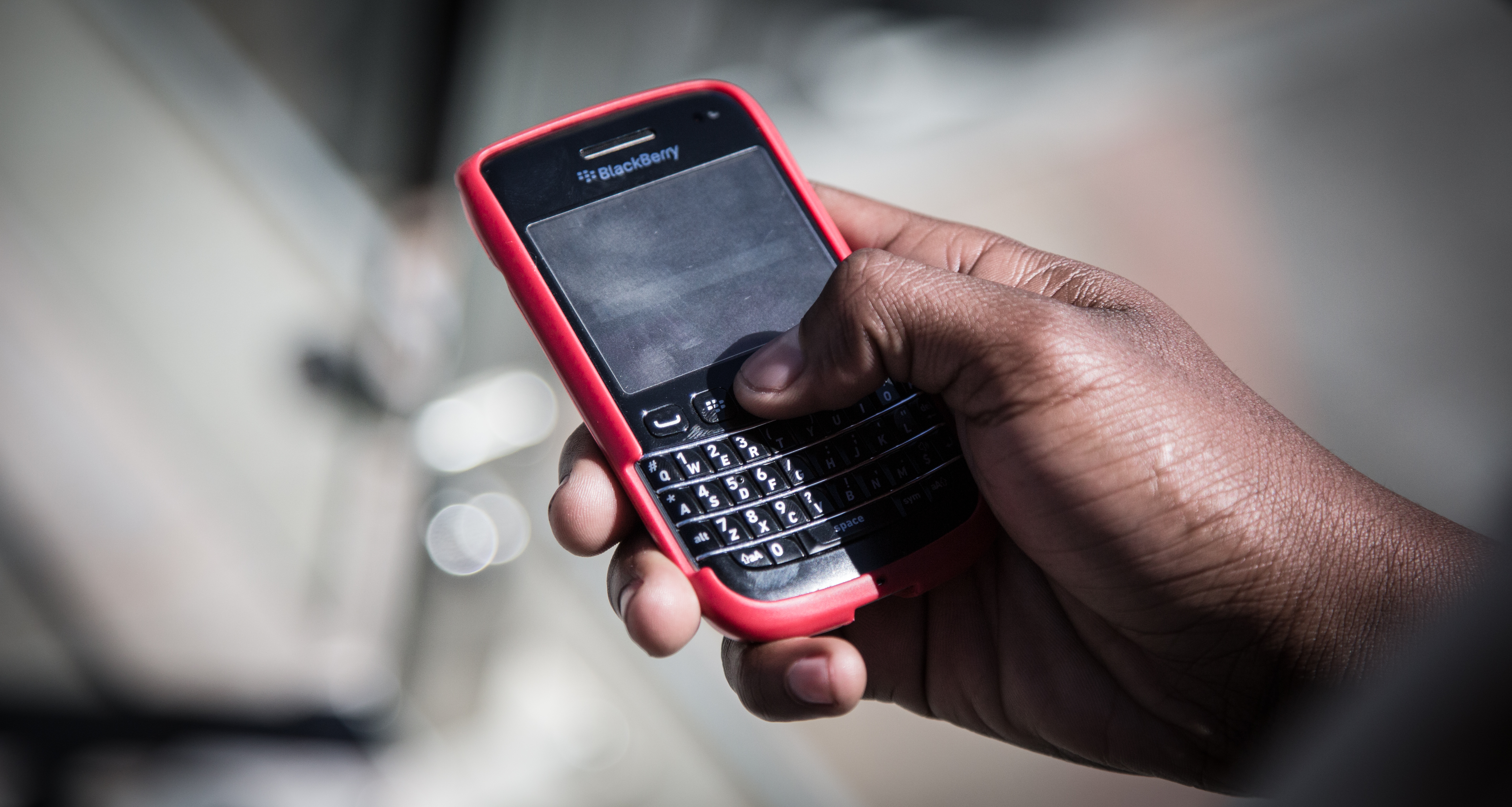 Wikipedia Zero Campaign in Africa